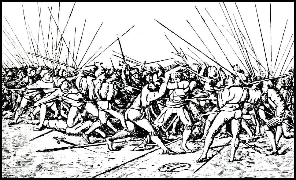 Military art (military science)